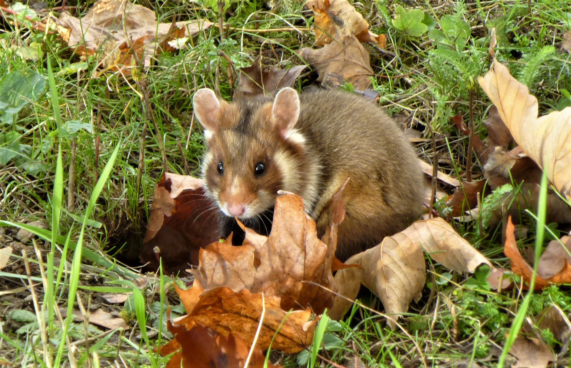 European hamster (Cricetus cricetus (Linnaeus, 1758)) in Vienna 2015